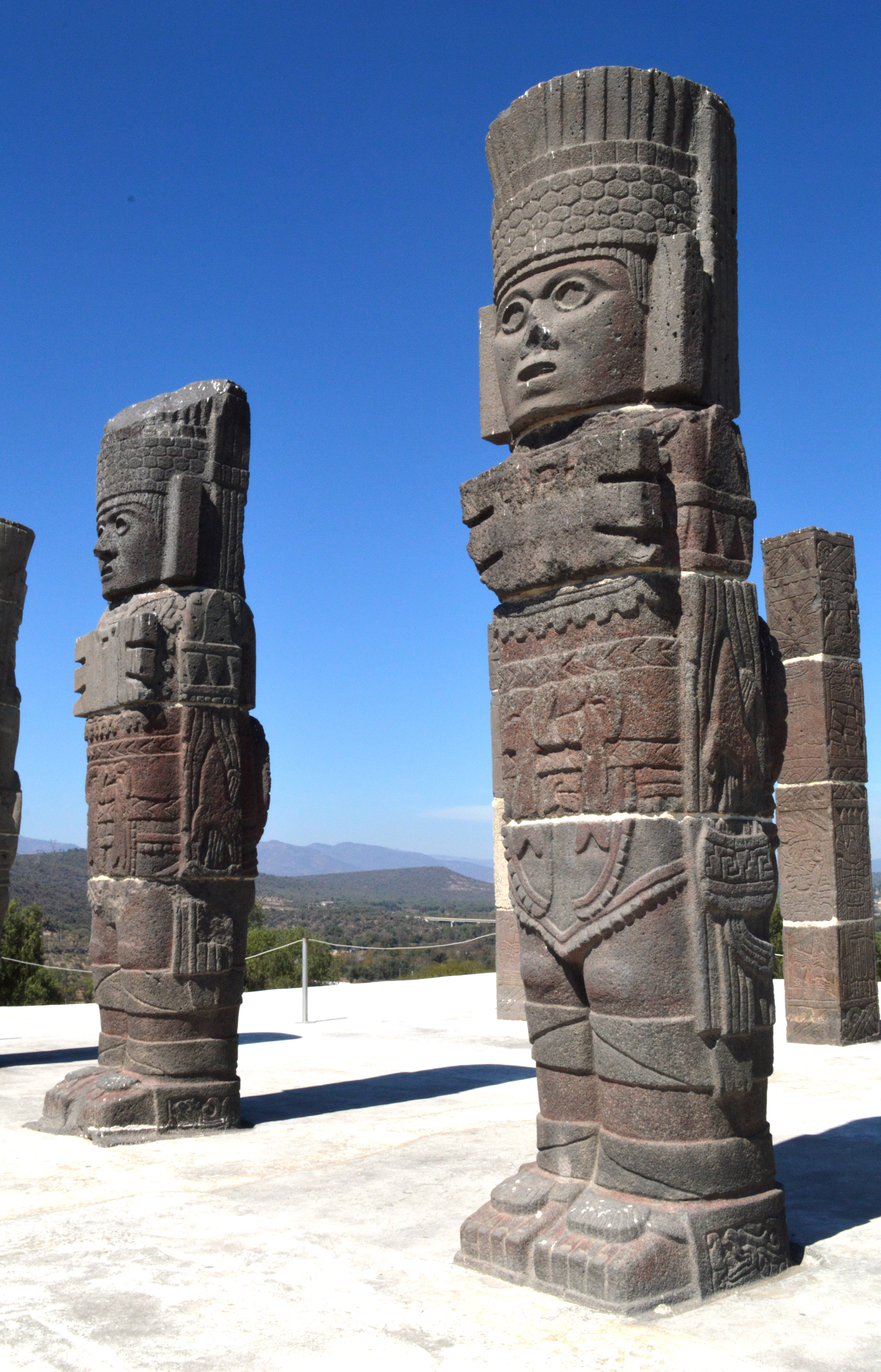 Atlantes of Pyramid B at Tula